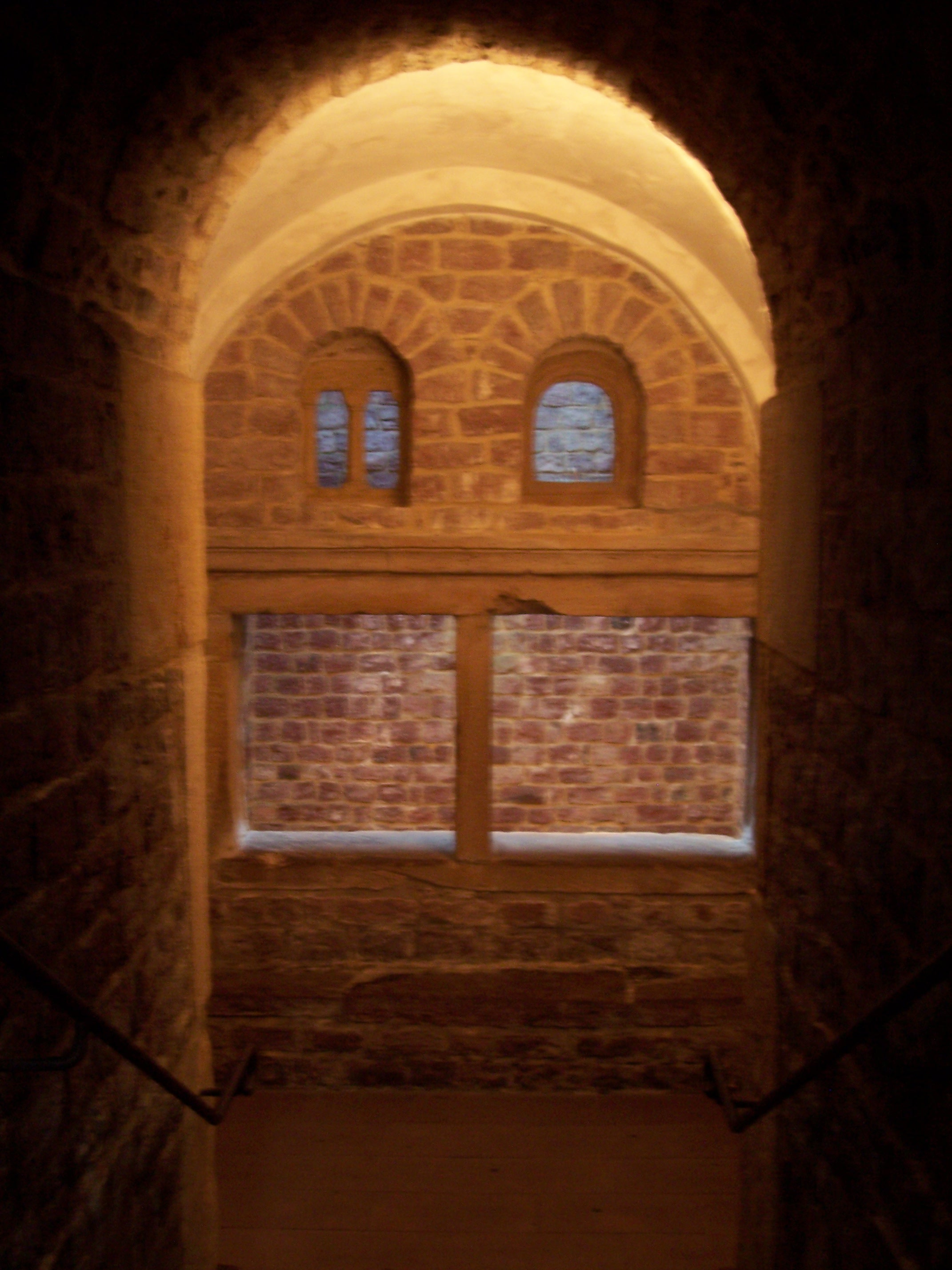 It shows the way down to the water at the of . Look also here